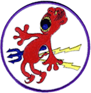 Emblem of the 384th Fighter Squadron (USAAF)